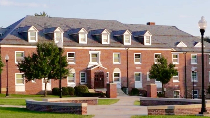 Residential building on the campus of Frostburg State University